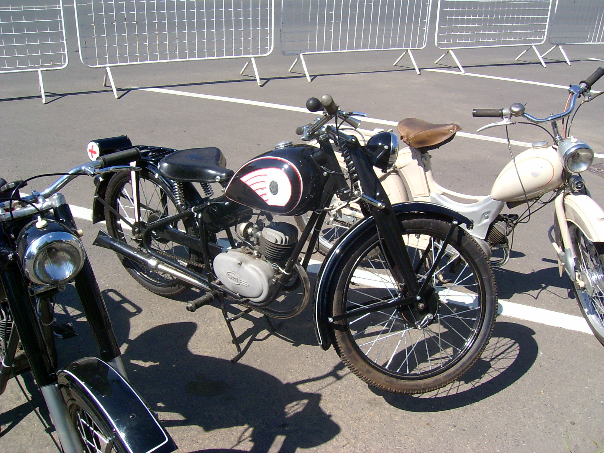 A Hungarian motorbike called Csepel 100/48 from 1948 in an open air exhibition in Nyíregyháza.